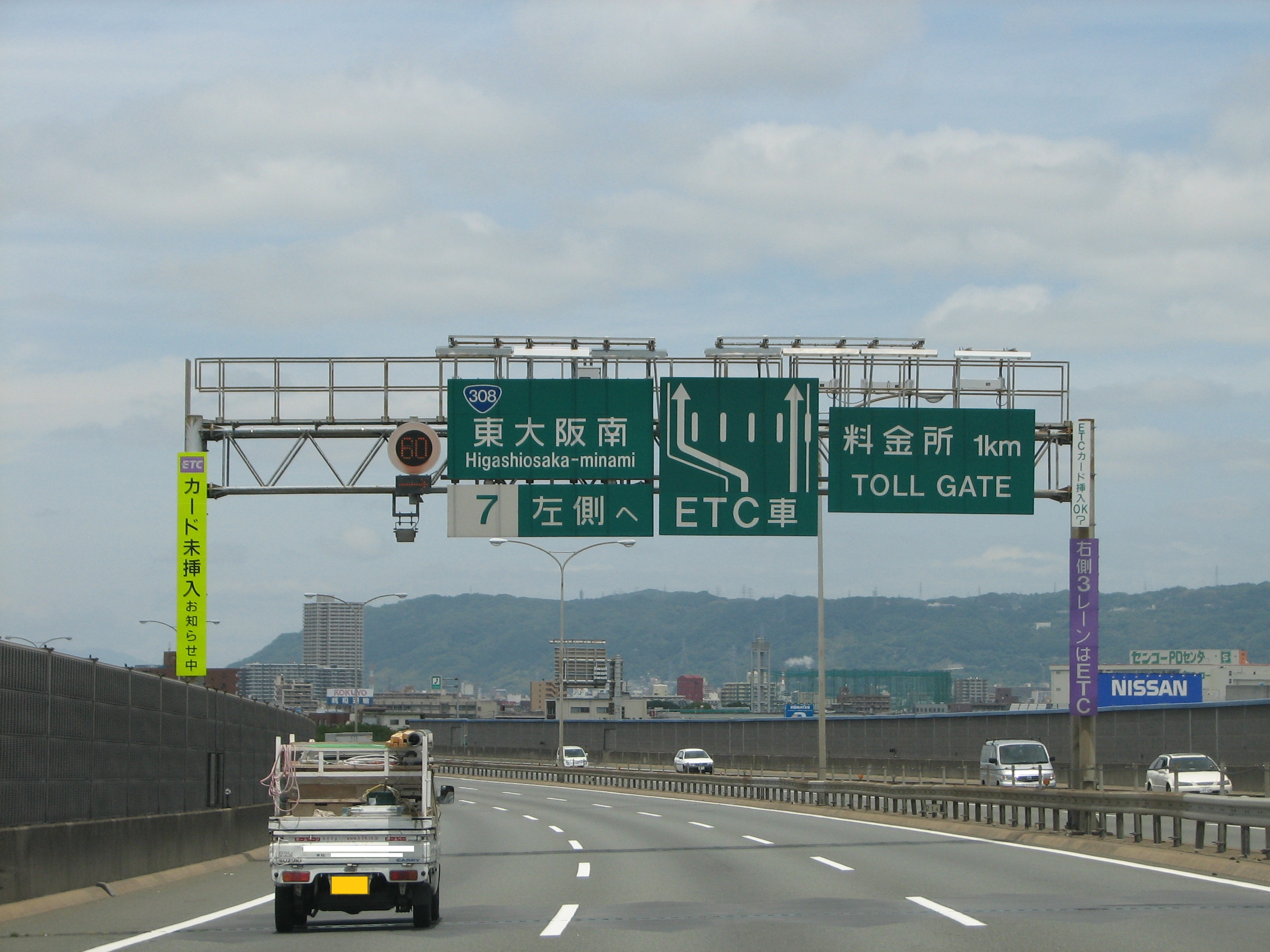 Higashiosaka-minami IC